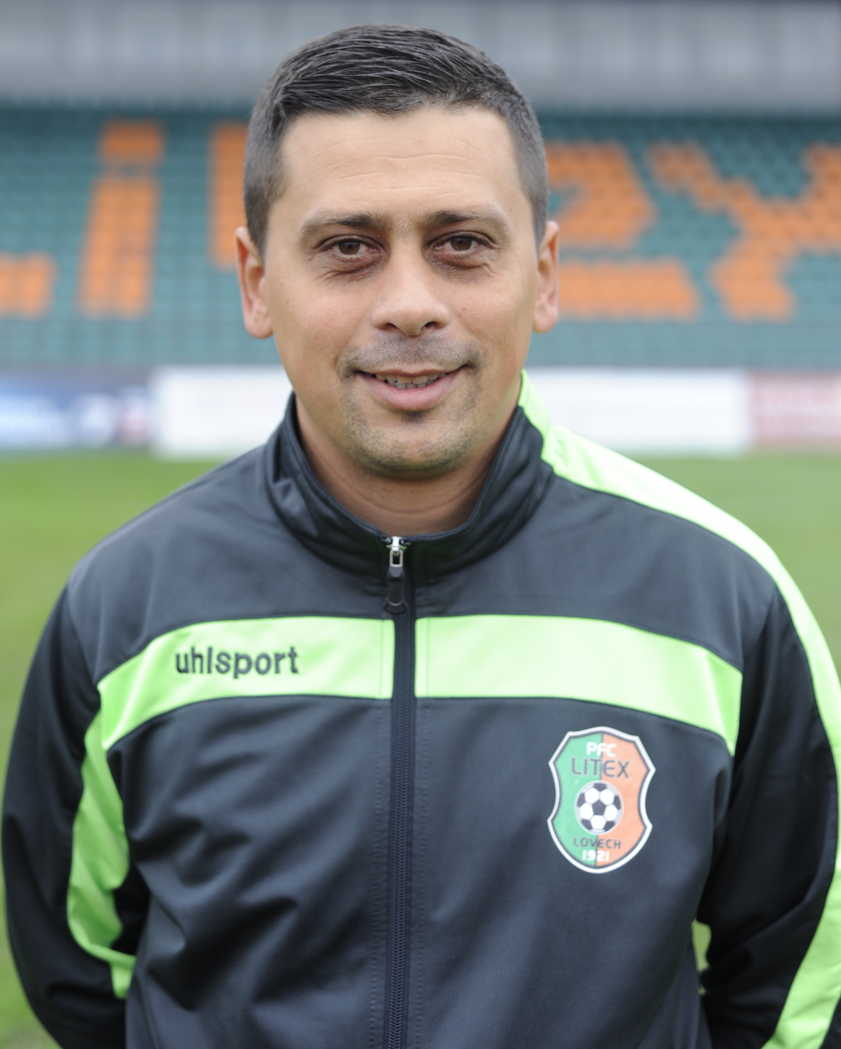 Ivailo Stanev